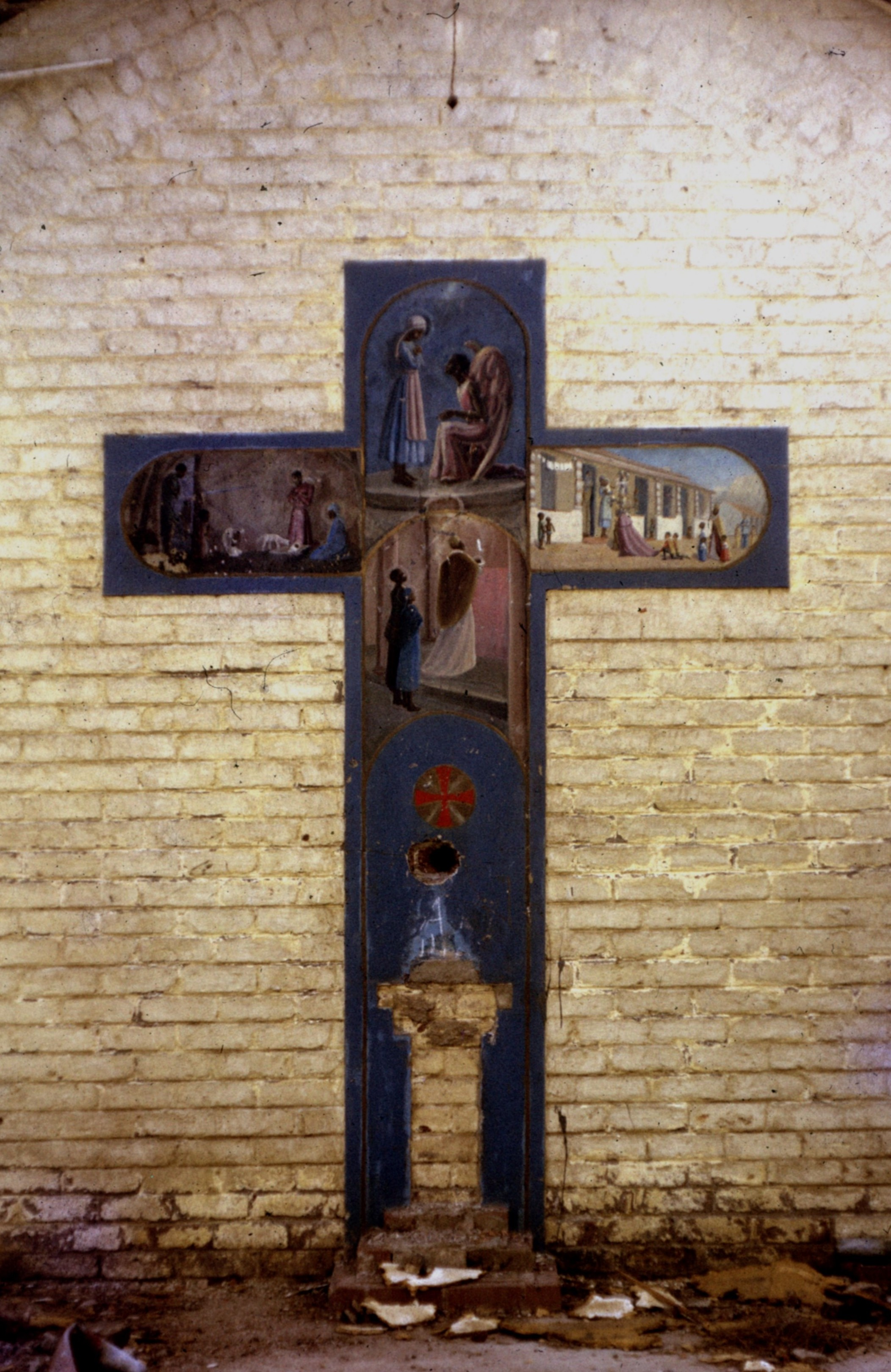 Mural above the baptistery of the Church of Christ the King, Sophiatown, Johannesburg. This picture was taken in 1972 when the church was derelict, the Sophiatown population having been forcibly removed in 1955 under South Africa's Apartheid regime. Trevor Huddleston, a missionary based at the Church of Christ the King, was one of the leaders of the opposition to the removals.